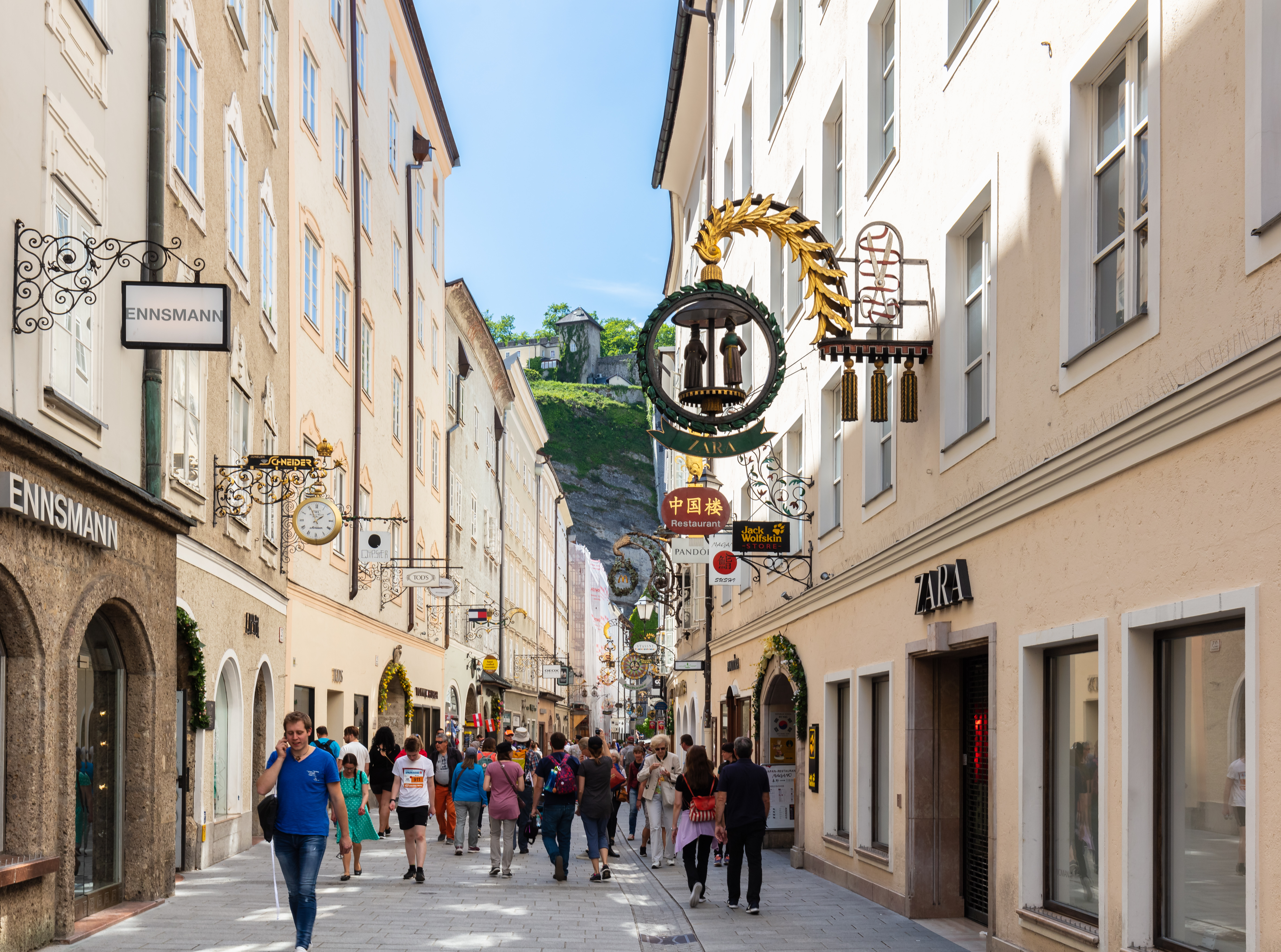 Getreide St, Salzburg, Austria